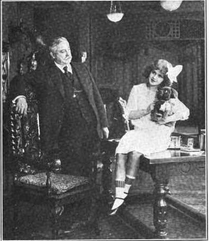 Marguerite Clark in Molly Make-Believe (1916), The American Club Woman Magazine.